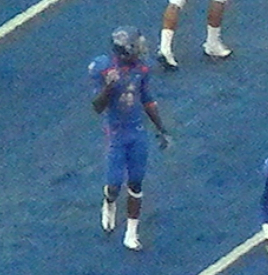 Boise State wide receiver Titus Young during Boise State's game vs San Jose State on October 31, 2009 at Bronco Stadium in Boise, ID